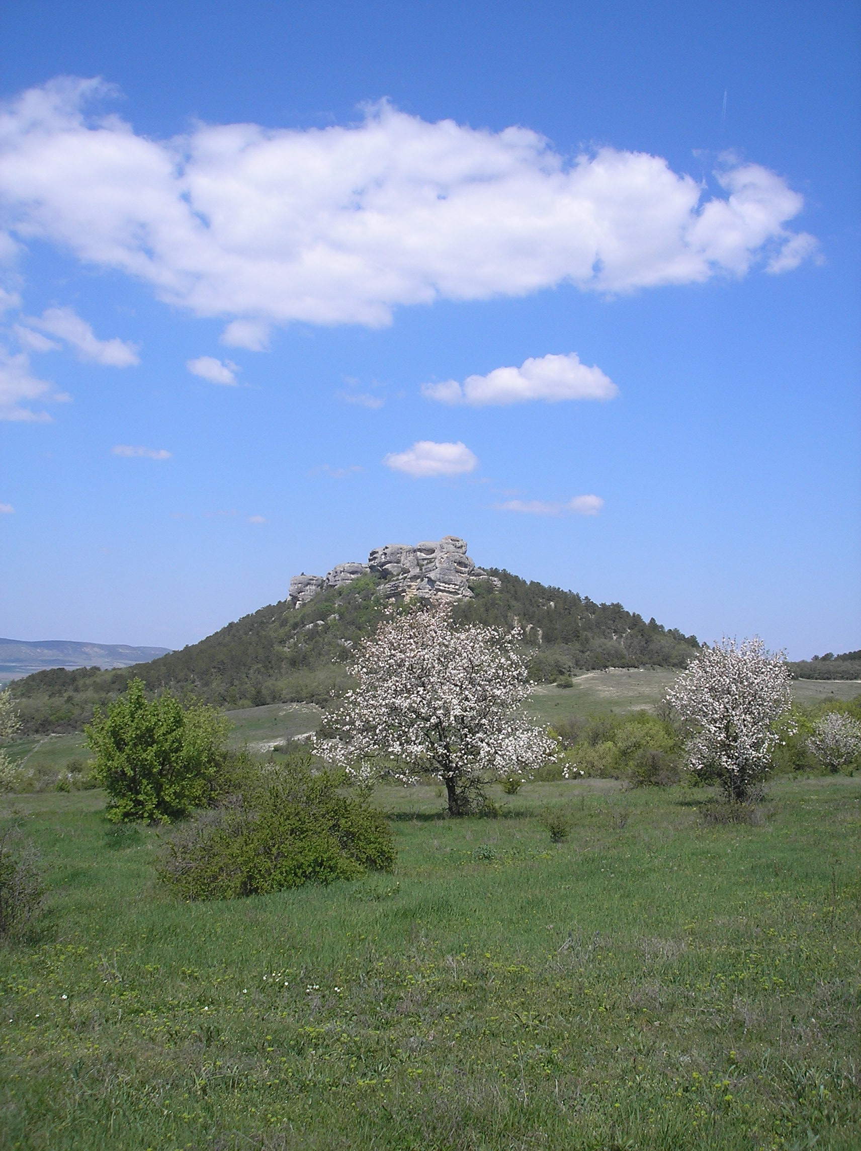 Uzun-Tarla near Mangup, Crimea, Ukraine